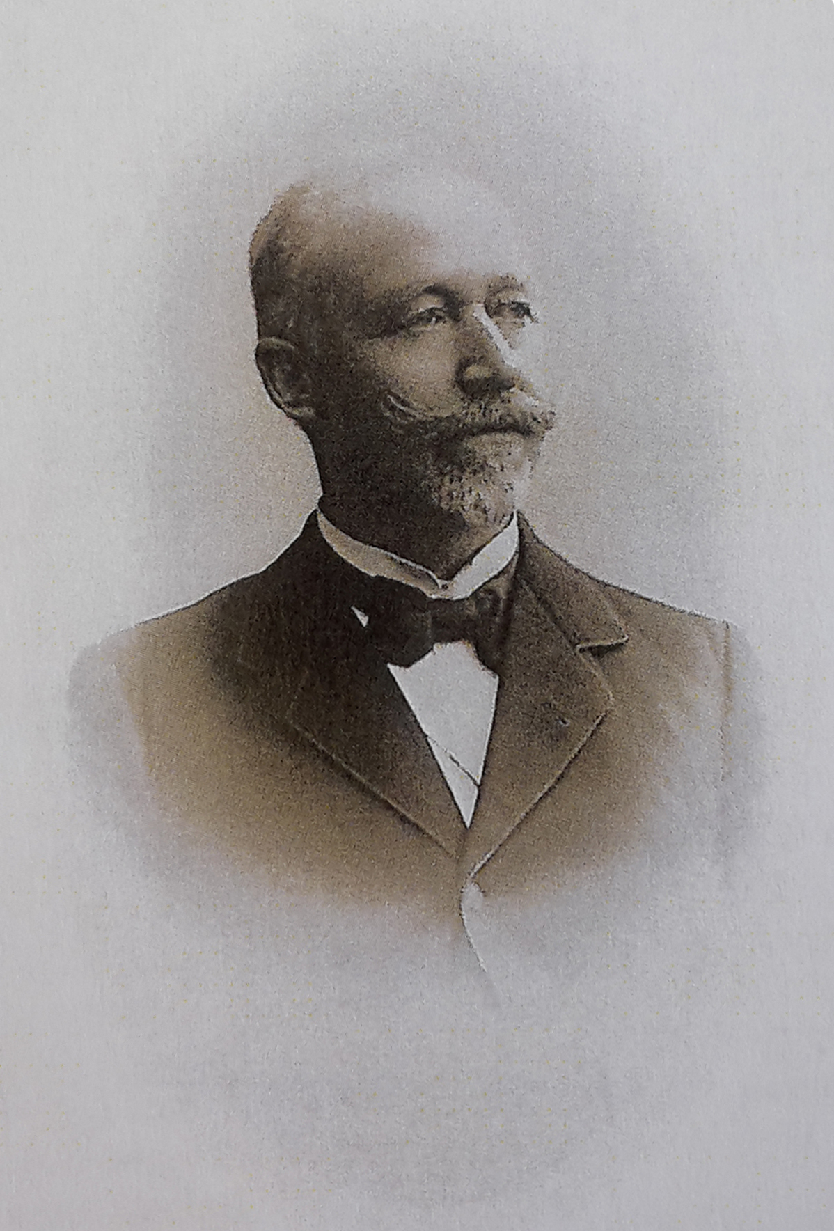 Jen Amundsen (1846-1918), norwegian sea captain.